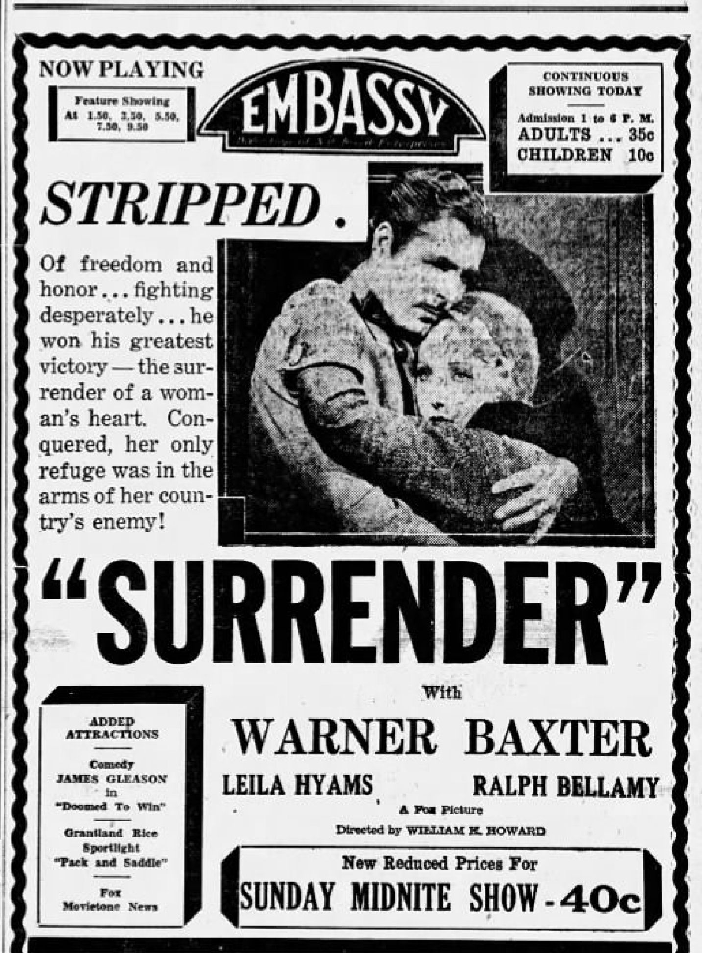 Embassy Theater advertisement for the American drama film Surrender (1931) - 12 Dec. 1931 Morning Call, Allentown PA